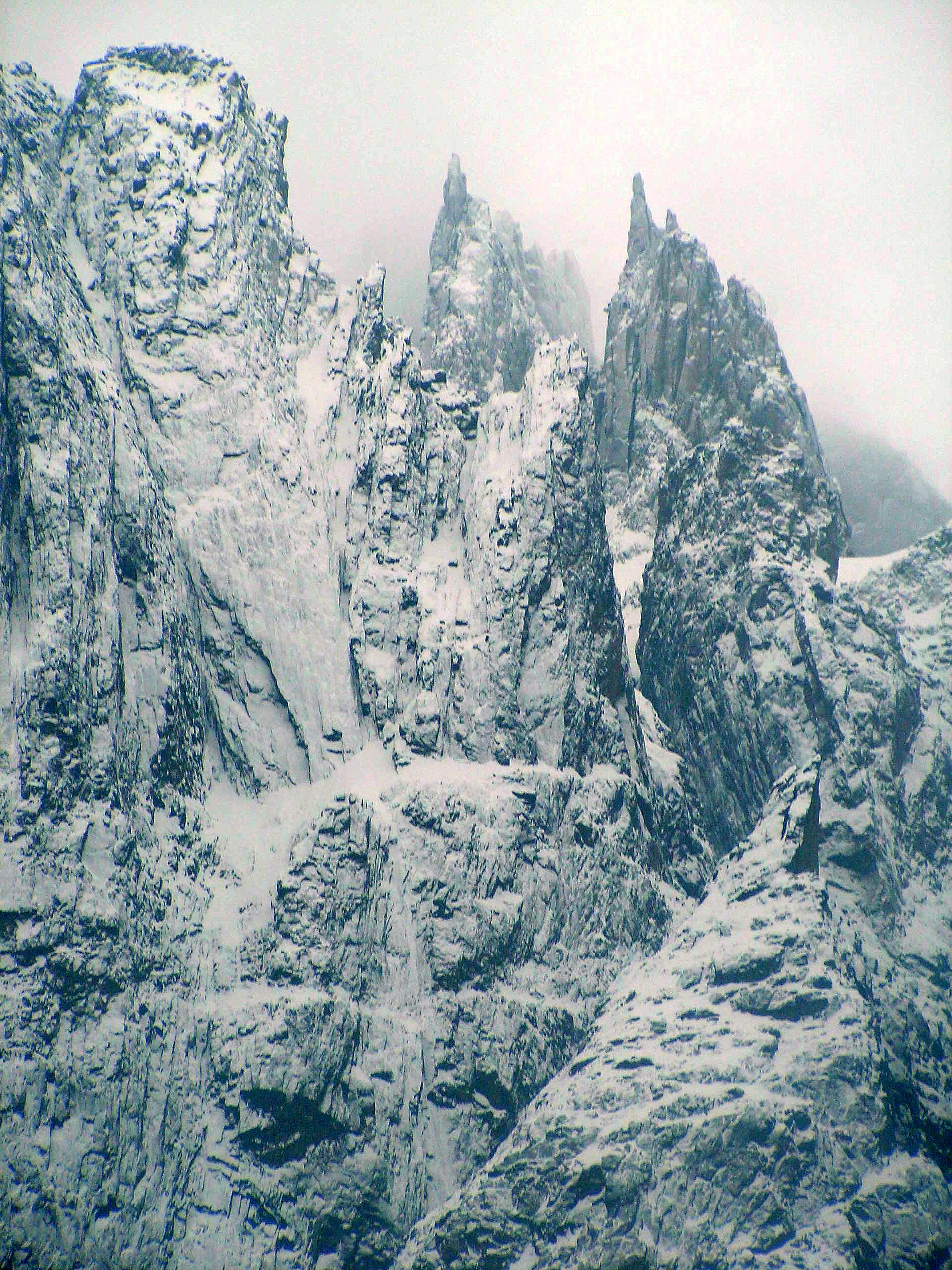 Mountains near Aappilattoq (Nanortalik), Greenland. These peculiar rock formations were probably nunataks, lying above the ice sheet that has eroded most features of other mountains. Photo by Jens Buurgaard Nielsen, December 2005.